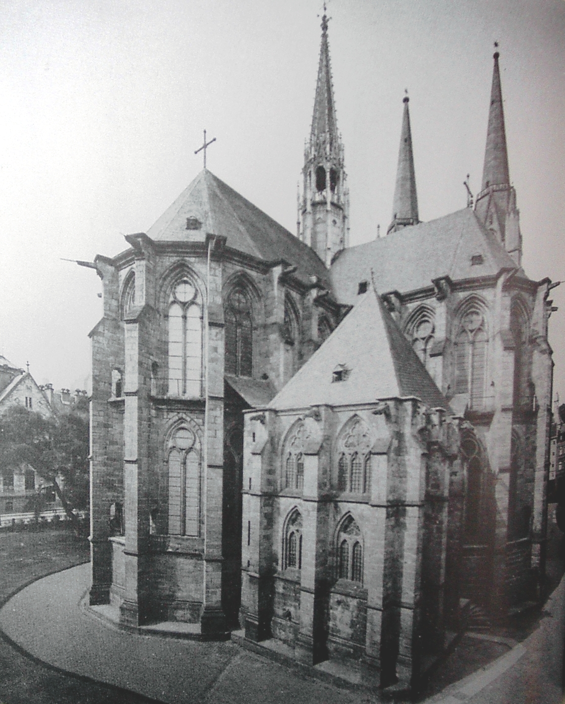 Elisabethkirche Marburg: Choir, northern transept and sacristy.